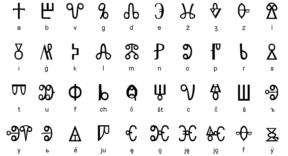 Glagolitic in old, Bulgarian/Macedonian round style, with scholarly transliteration. Compare Image:Glagolica.gif, which has the same letters (and one more), in slightly different style and order. Compare also Image:Glagolitic old back yus.png, which has the extra letter, but in this style.